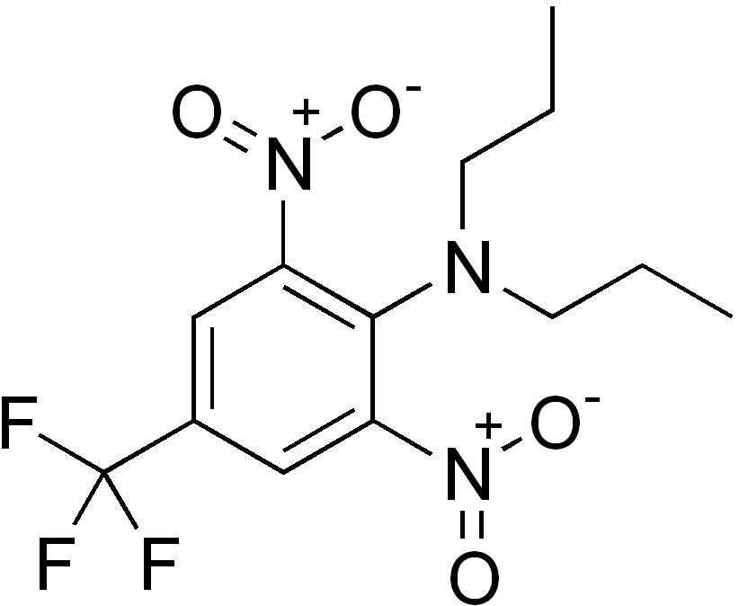 chemical structure of trifluralin